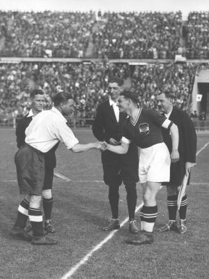 striker of the "Wunderteam"